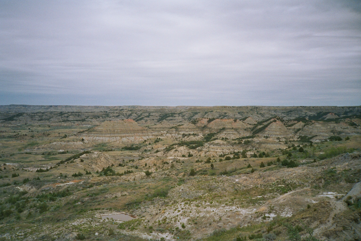 Theodor Roosevelt National Park (South Unit)